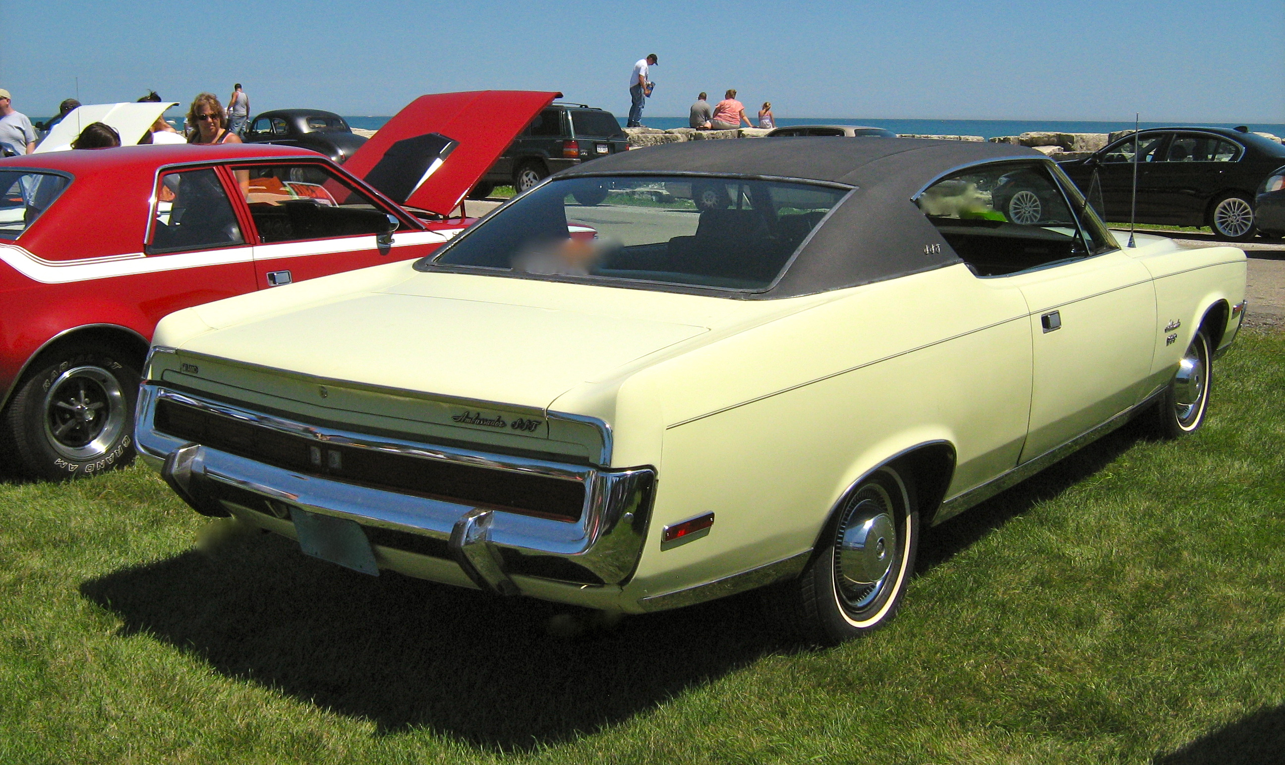 1970 AMC (American Motors Corporation) Ambassador SST two-door hardtop (no "B" pillar) finished in Hialeah Yellow (paint code P58) - photograph taken in Kenosha, Wisconsin. This car features AMC's 360 cubic inch (5.9 L) L) V8 engine, as well as the factory optional black vinyl roof cover. This car is currently owned as of May 2012 and shown by Doug Shepard of Toledo, Iowa.